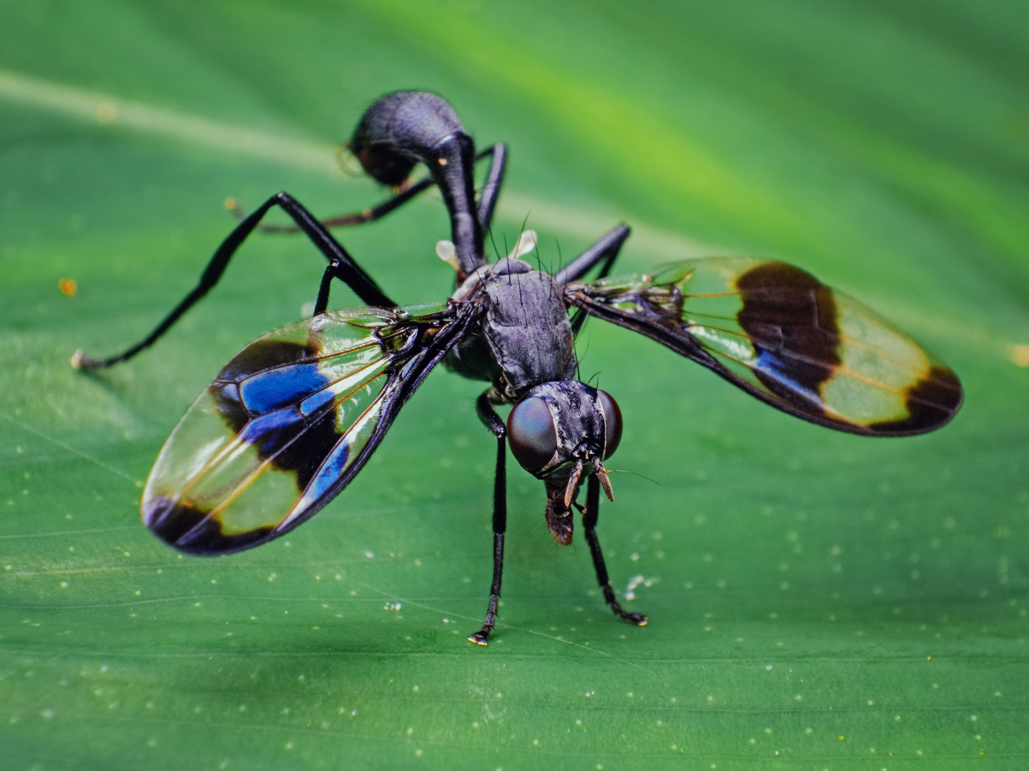 Wasp-like fly signalling with black and yellow wings, probably Setellia sp., in the atlantic forest of Carlos Botelho State Park, Sâo Miguel Arcanjo, Brazil.